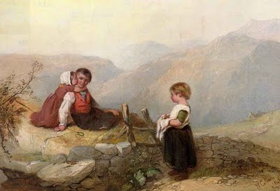 Children on a mountain top